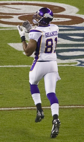 Minnesota Vikings tight end Visanthe Shiancoe warms up before a game against the Arizona Cardinals at the University of Phoenix Stadium in Arizona.